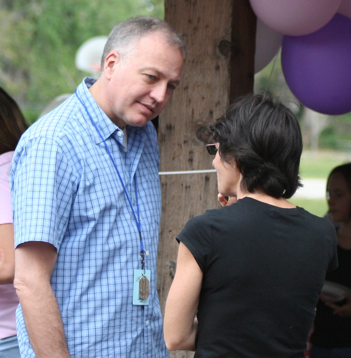 Matt Foreman, Executive Director of the National Gay and Lesbian Task Force, in conversation with guest at the Winter Party Festival 2007 South Florida Family Pride Picnic in Hollywood, Florida on Saturday afternoon, 03 March 2007.